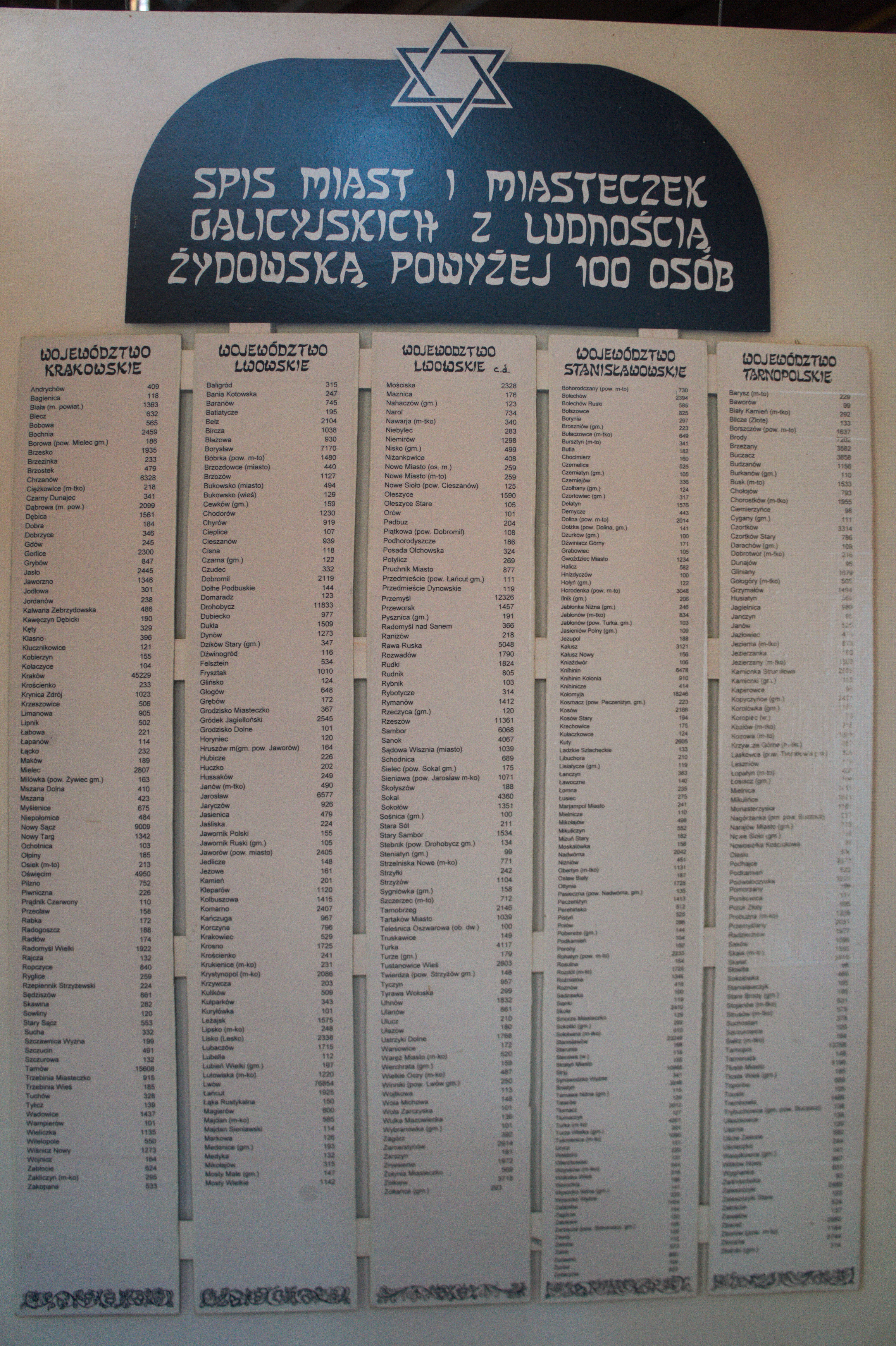 Population of Jews before Second world war in Galicia.Galicia Jewish Museum in Krakow, Poland. Српски (ћирилица): Популација Јевреја у Галицији пре други светски рат. Музеј Галицијских Јевреја, Краков, Пољска.